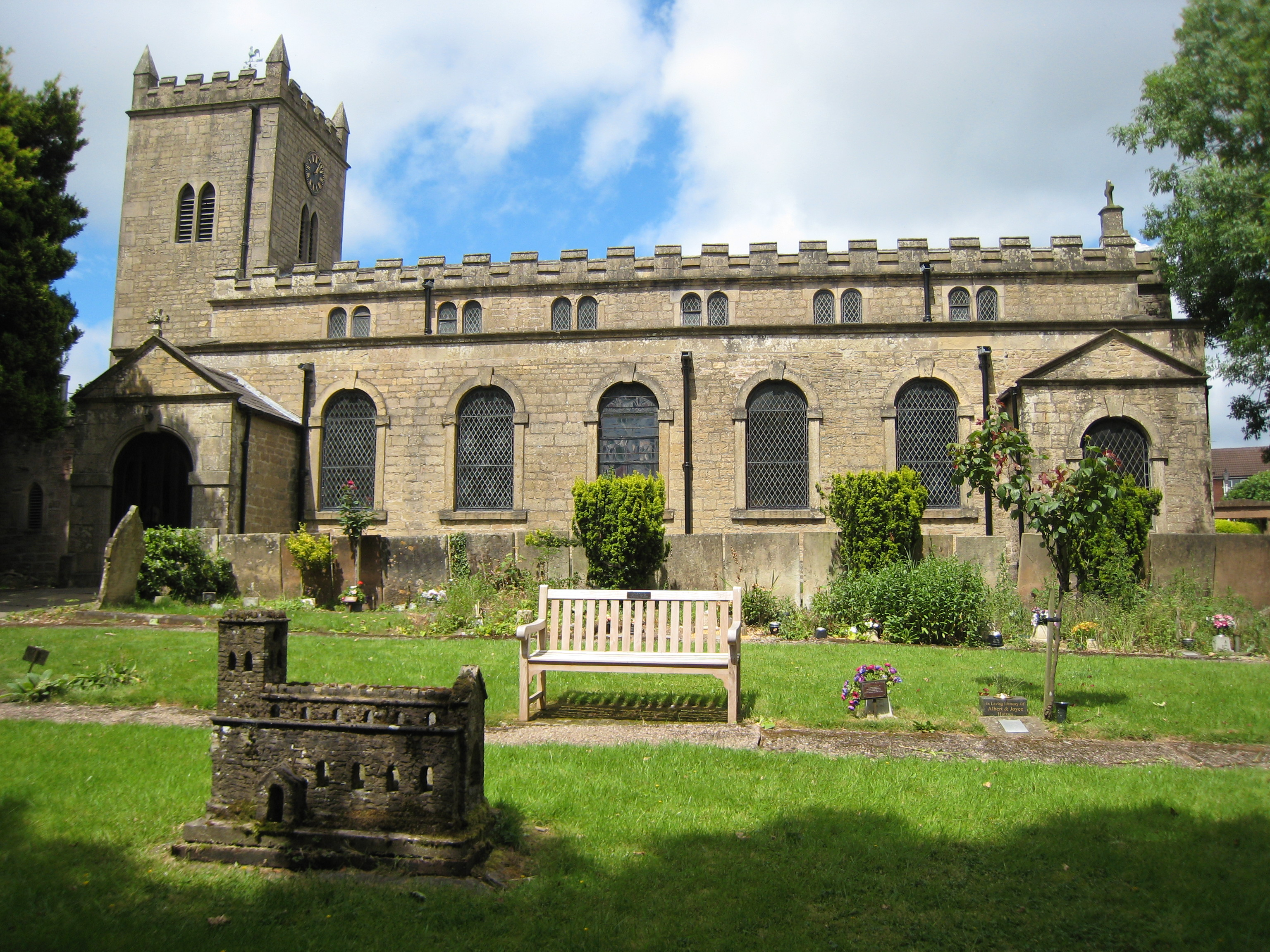 Church of St Mary of the Purification, Blidworth. View from the South, the graveyard, showing the East clock face. In the foreground is a model of the church in earlier times, made in 1963. Grade II* listed building.